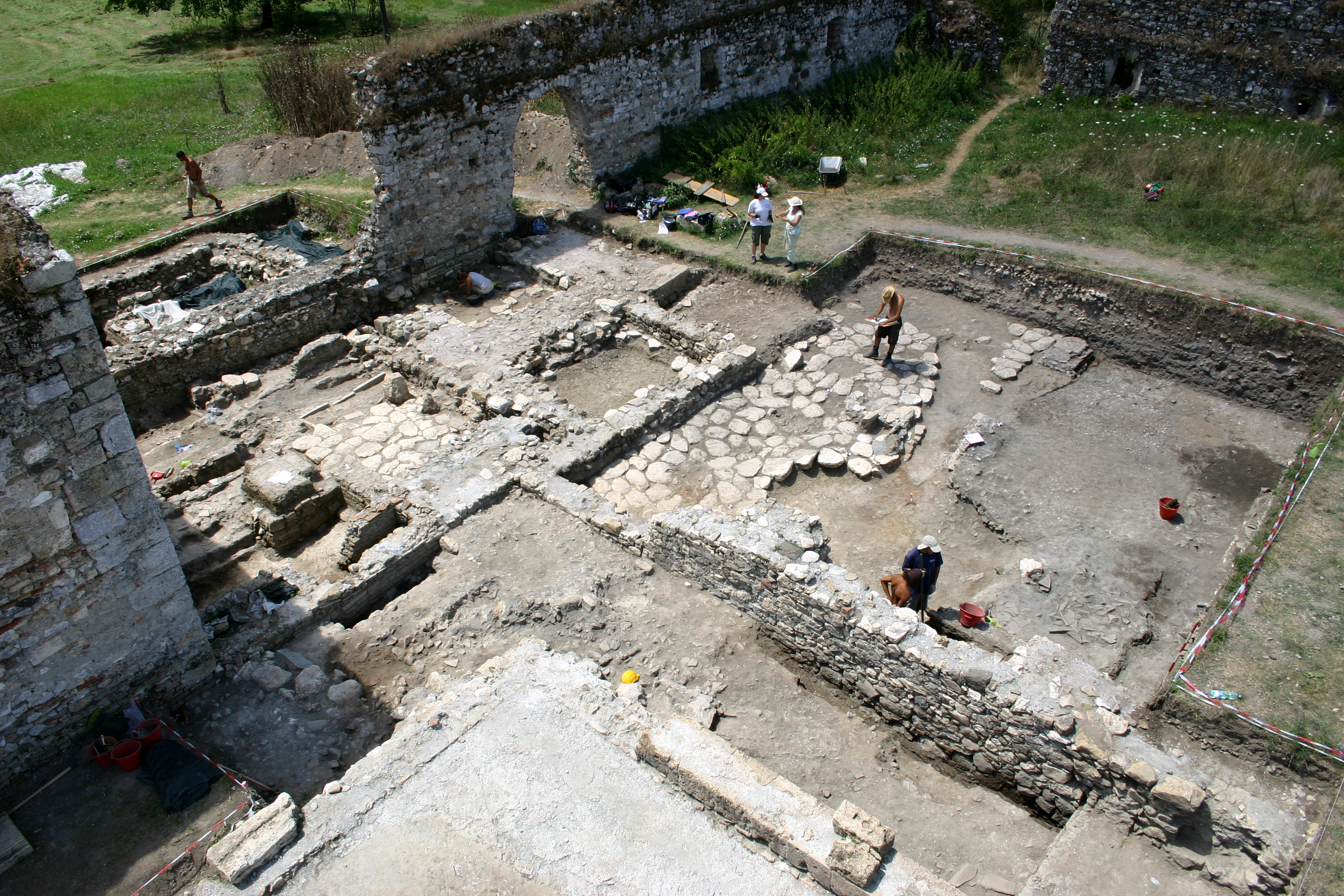 Excavation of S. Pietro in Villamagna underway, 2009. The photograph shows a late Roman paved area, structures of the Medieval monastery, and a medieval cemetery.